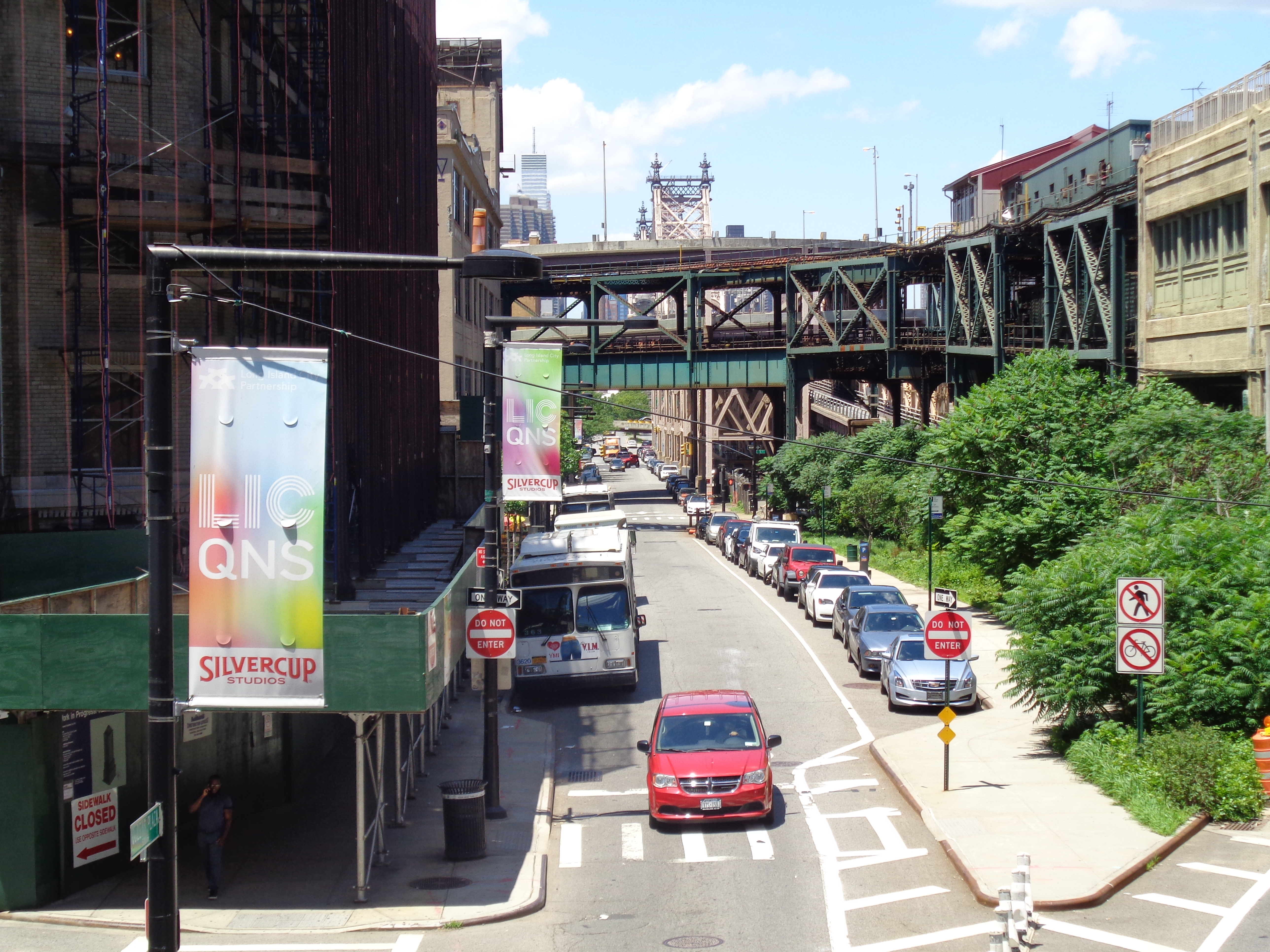 Looking west along Queens Plaza South in Long Island City, Queens. Looking from the footbridge entrance to the Queensboro Plaza subway station.